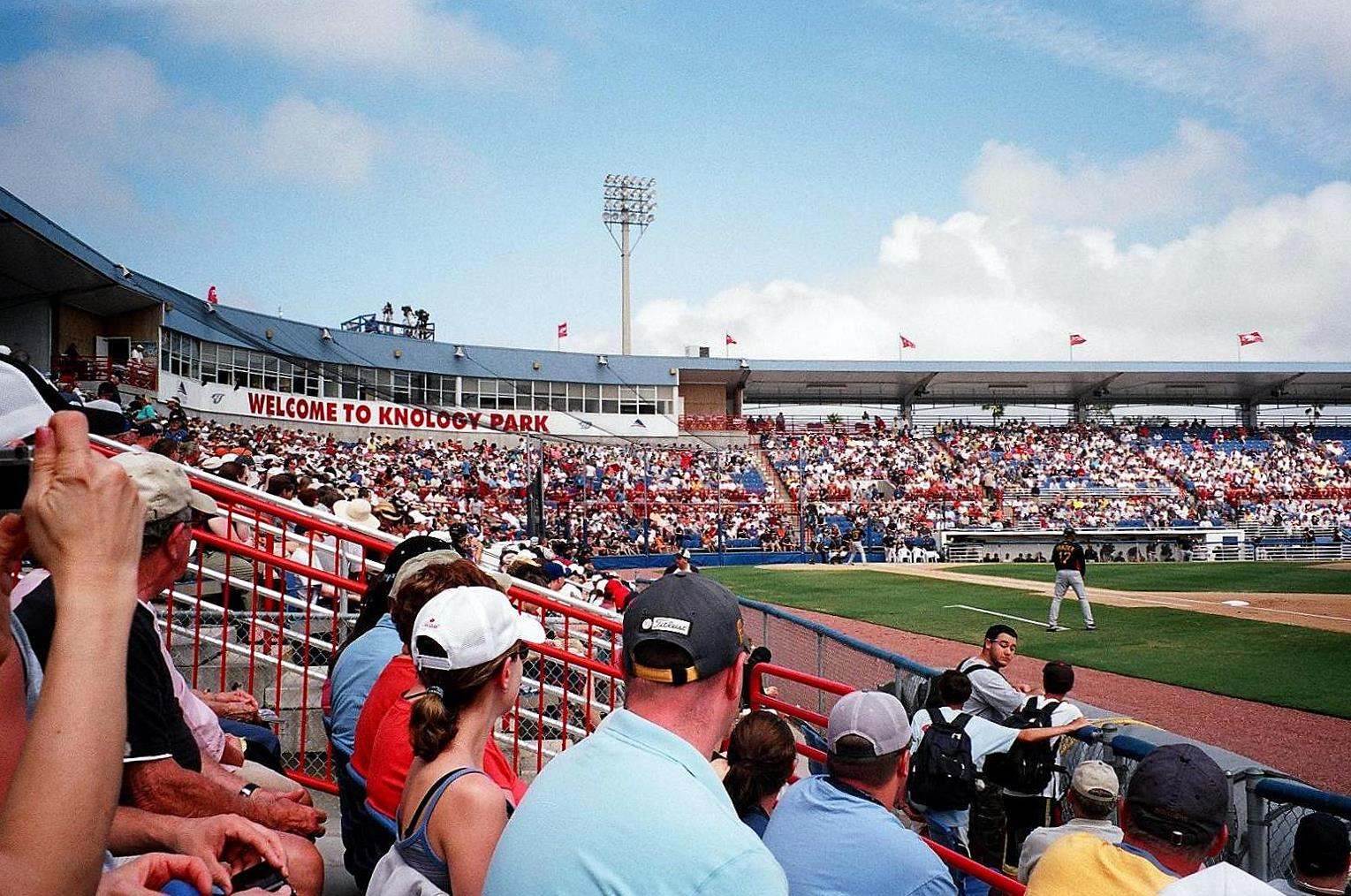 Description Knology Park, Dunedin, Florida Date2007SourceOwn workAuthorMike Russell 01:33, 1 May 2008 . . Mikerussell . . 1,529×1,014 (317 KB) Knology Park, Dunedin, Florida